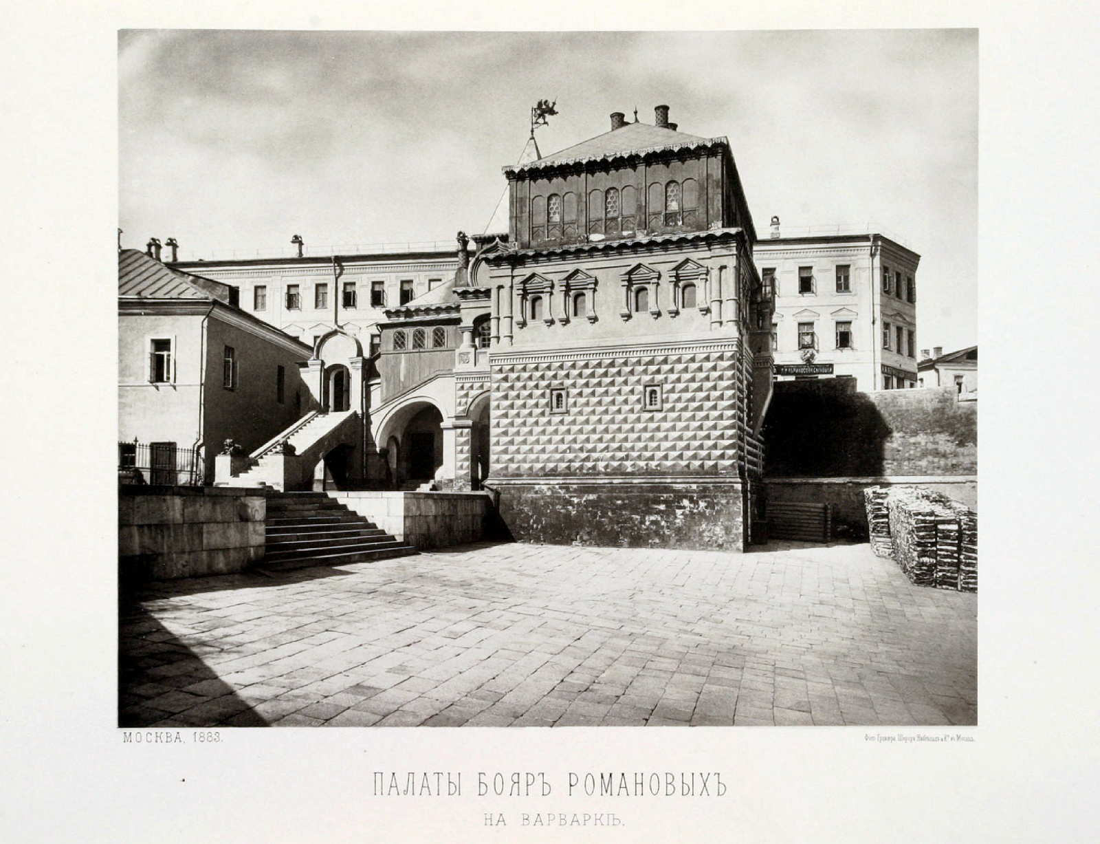 Plate 46: The Romanov house on Varvarka Street.